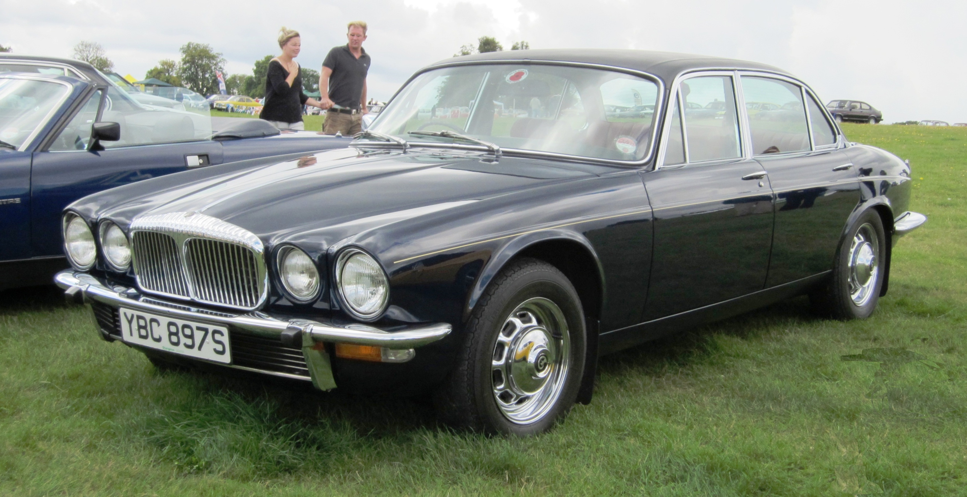 Daimler Double-Six S2 1978